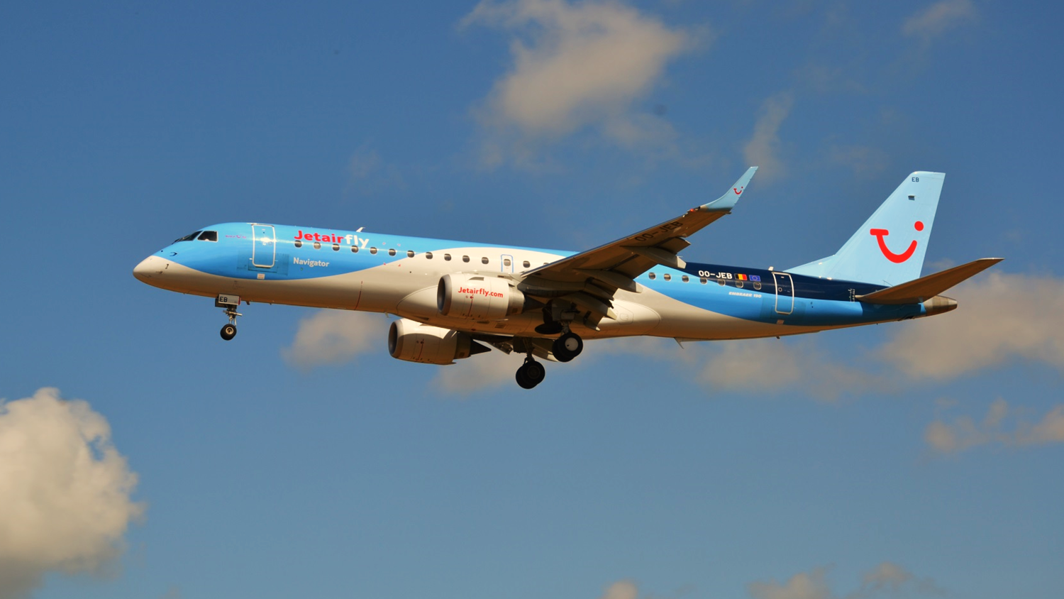 An Embraer 190 of Jetairfly.